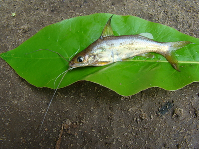 Mystus gulio, location: Pallimukku-Kayaltheeram Road, Ward 4, Mannanchery, Kerala 688538, India.